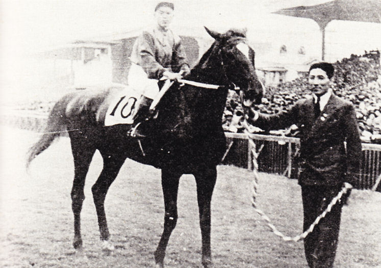 JRA hall of fame inductee Kurifuji,1943 june 6th